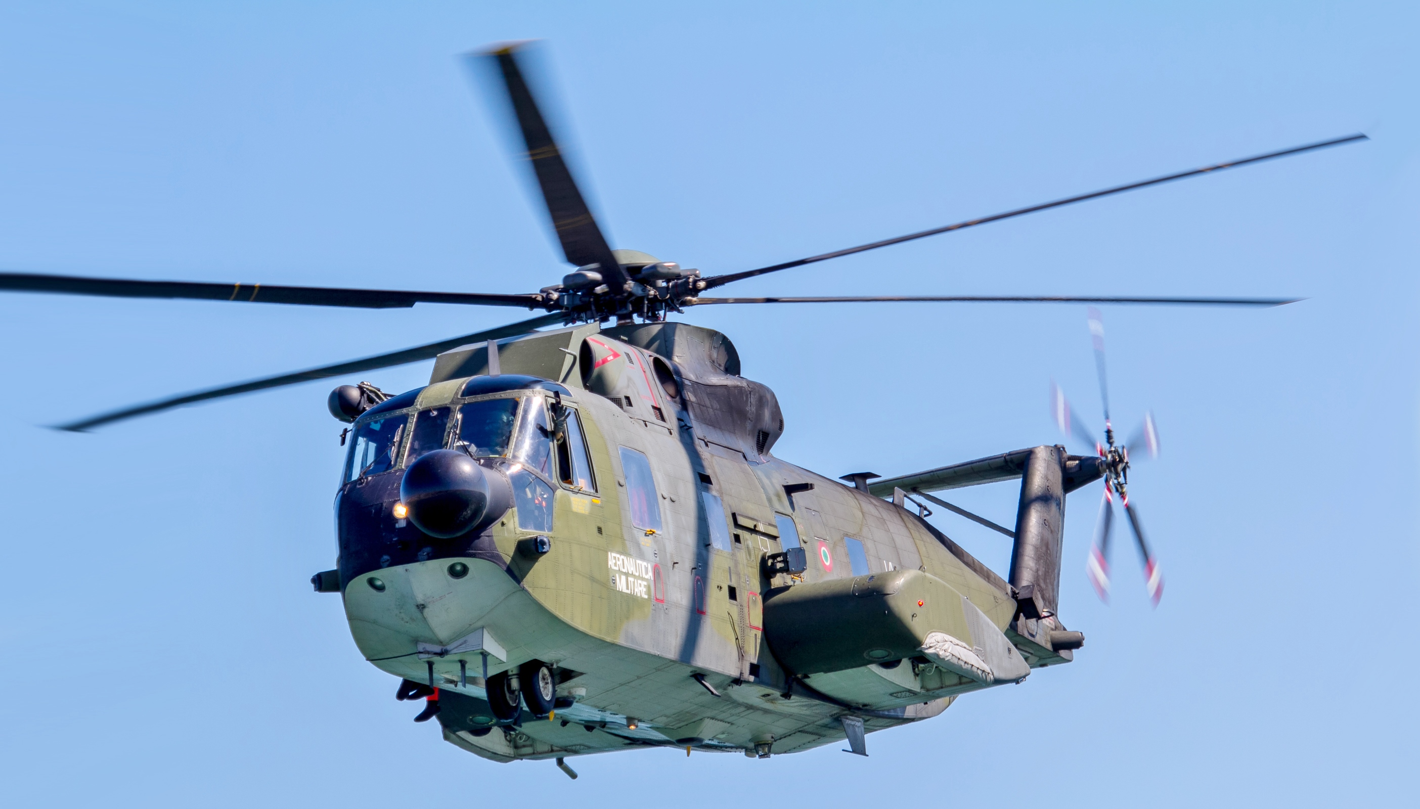 Italian Air Force Sikorsky HH-3 at the 2014 Rome International Air Show